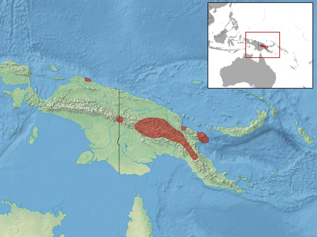 geographic distribution of Emoia loveridgei